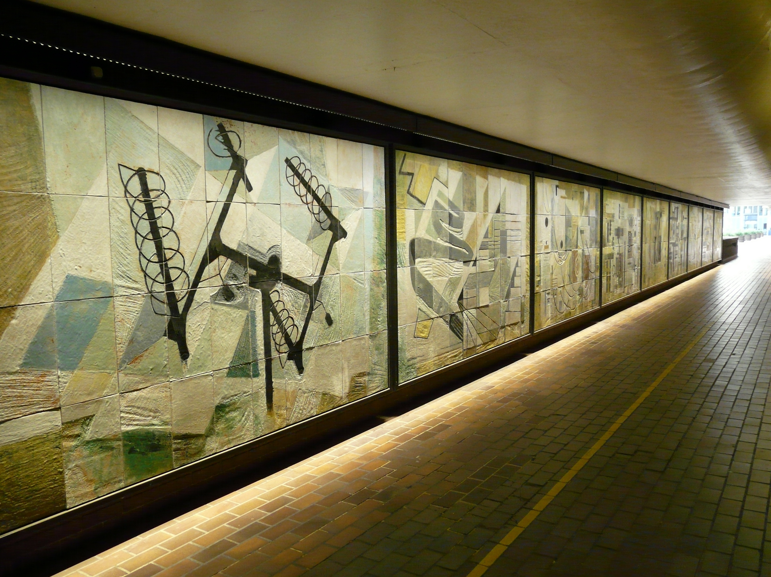 Murals by Dorothy Annan, Barbican, London